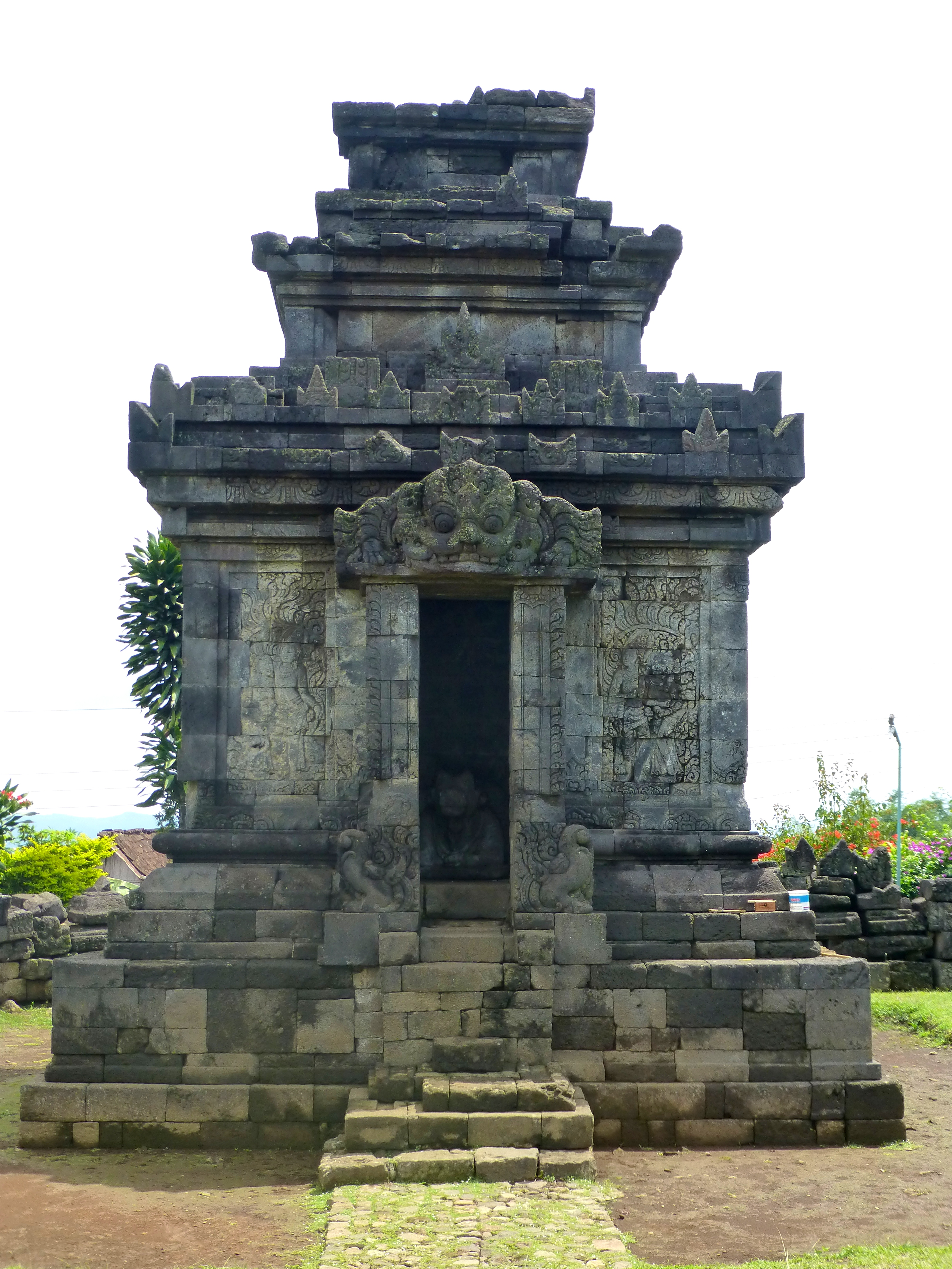 001 Reconstructed Temple at Pringapus Village, Central Java Photograph from Candi Pringapus, a temple dedicated to the Hindu deity, Shiva, in Java, Indonesia taken by Anandajoti.